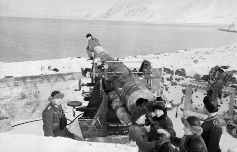 Information added by Wikimedia users.